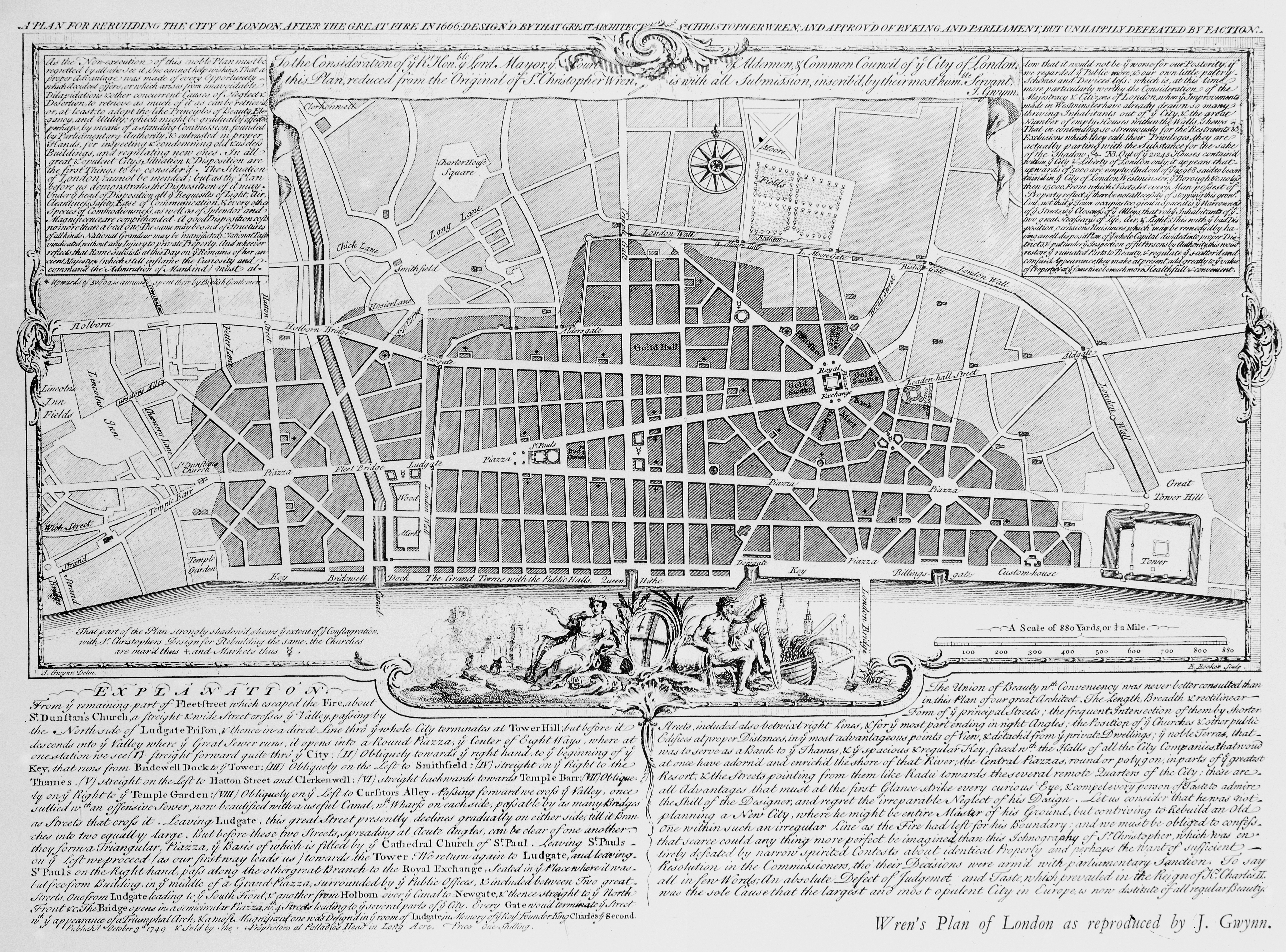 Sir Christopher Wren's plan of London as reproduced by Gwynn. Wellcome Images Keywords: City Planning; Town Planning; Topography